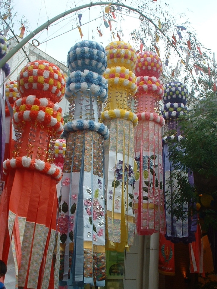 Image of Tanabata decorations, photographed during the Sendai Tanabata Festival, held at Sendai, Miyagi Prefecture, Japan. I took this photograph on August 7, 2005. This image is multi licensed under the GNU Free Documentation License and the Creative Commons Attribution-ShareAlike 2.0 license. Hình:SendaiTanabata1.jpg